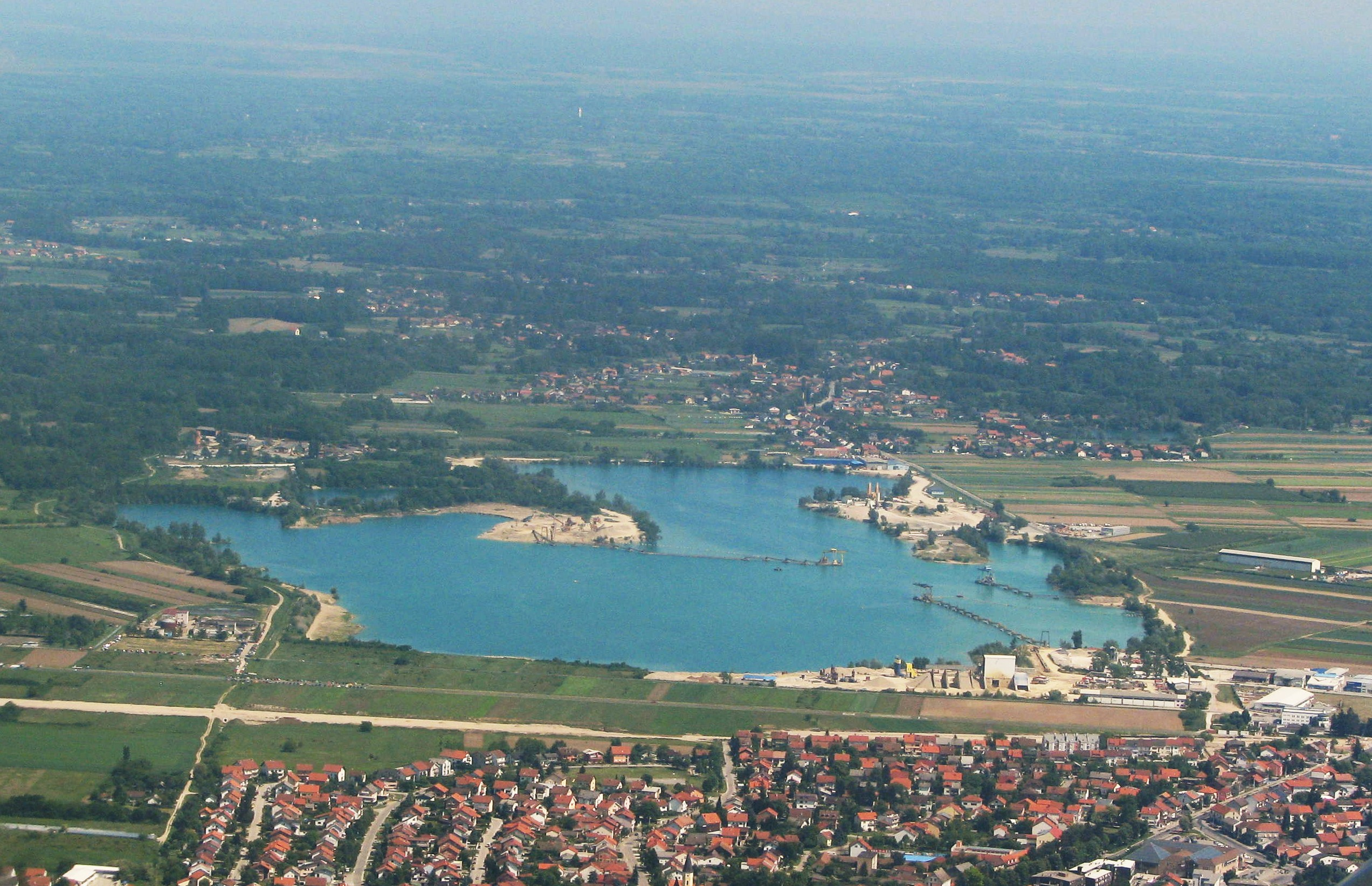 Lake Čiče near Velika Gorica, Croatia, view ftom the plane